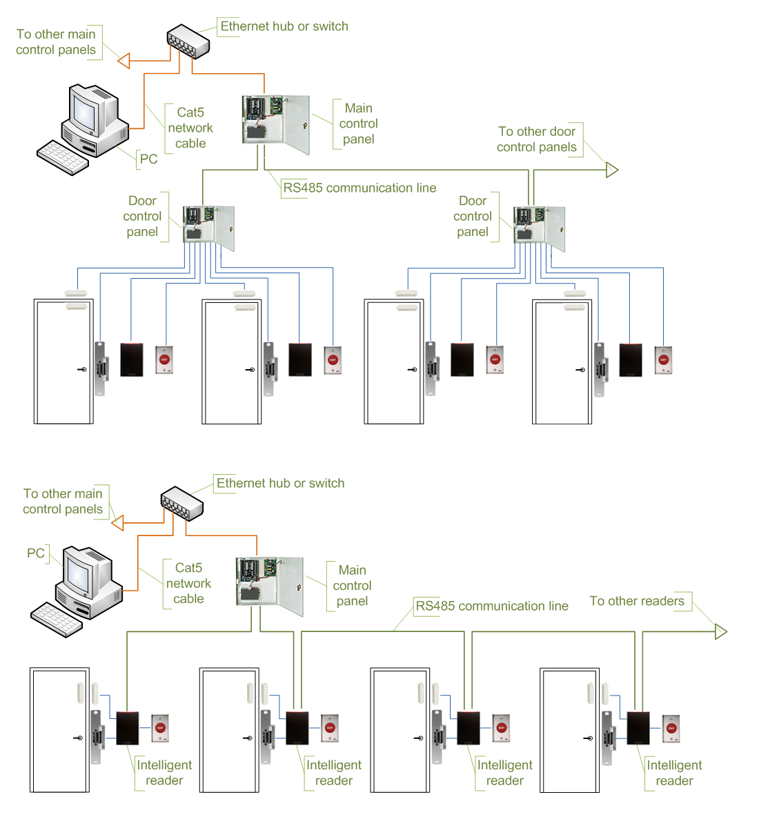 Access control system diagram, using IP controllers